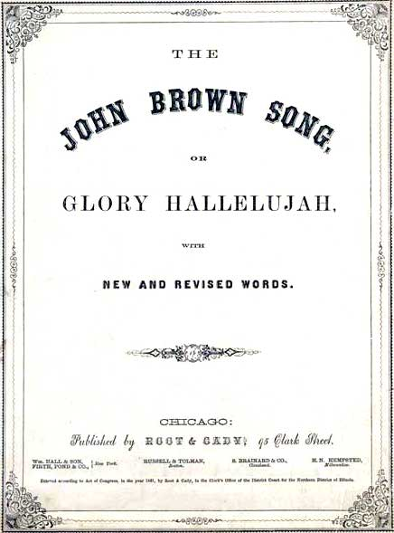 Cover of sheet music for "John Brown's Song" [music by William Steffe], Chicago: Root & Cady, 1861